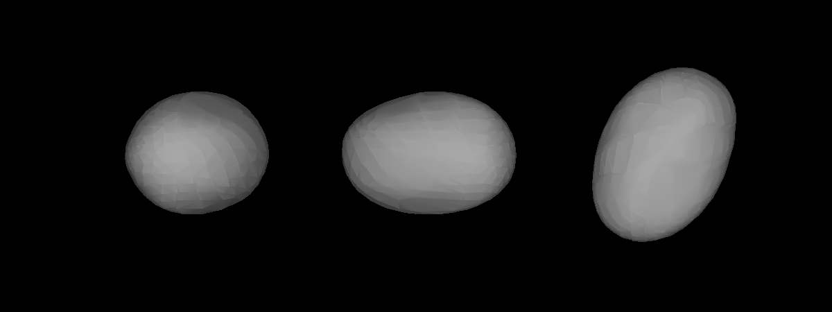 A three-dimensional model of 283 Emma that was computed using light curve inversion techniques.